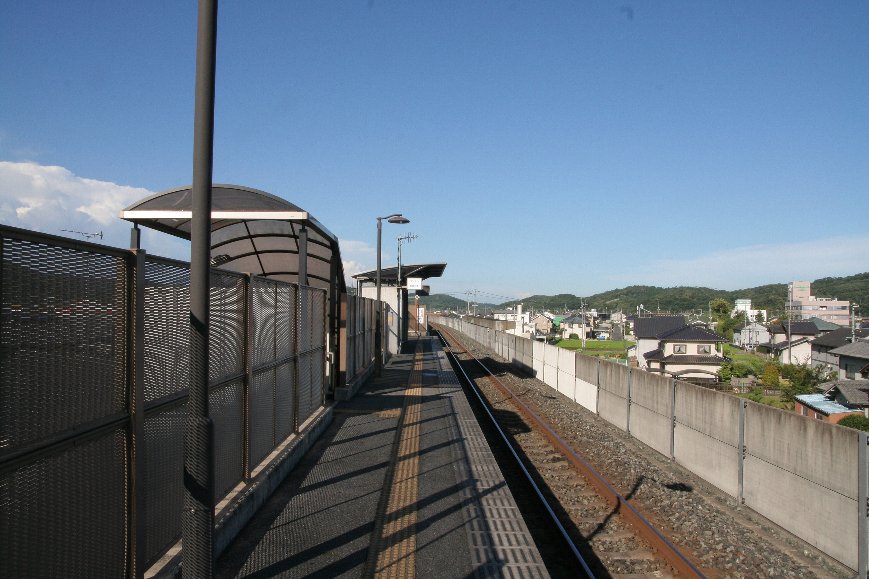 Ibara Railway yuno sta enclosure